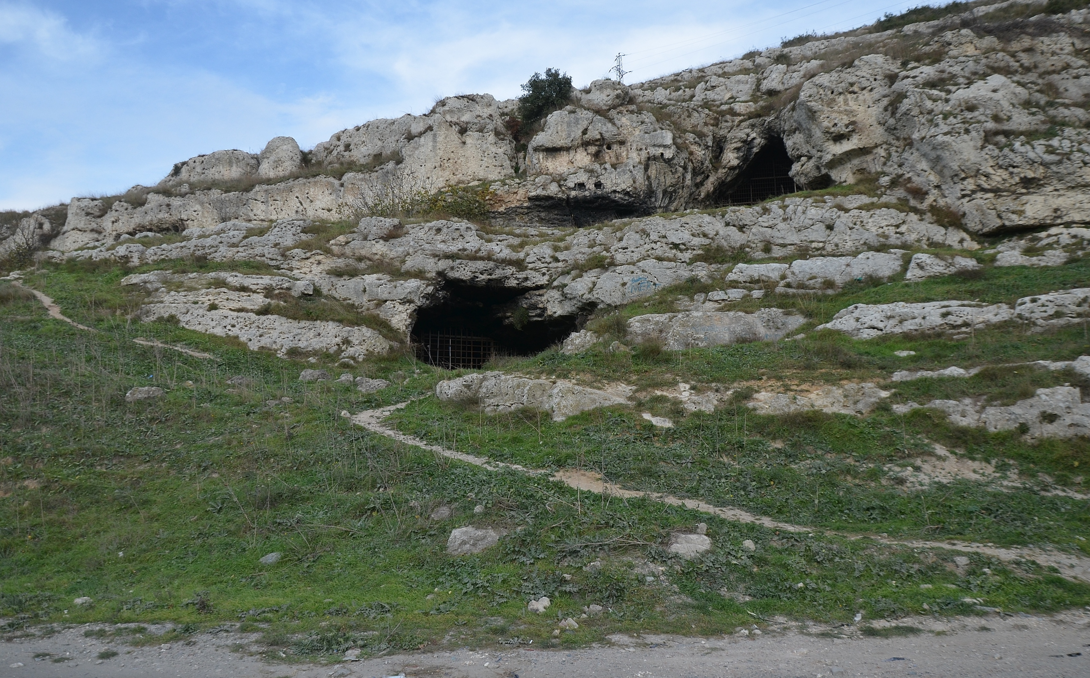 Main entrance at lower cave and uppder cave above of Yarımburgaz Cave in Başakşehir, Istanbul, Turkey